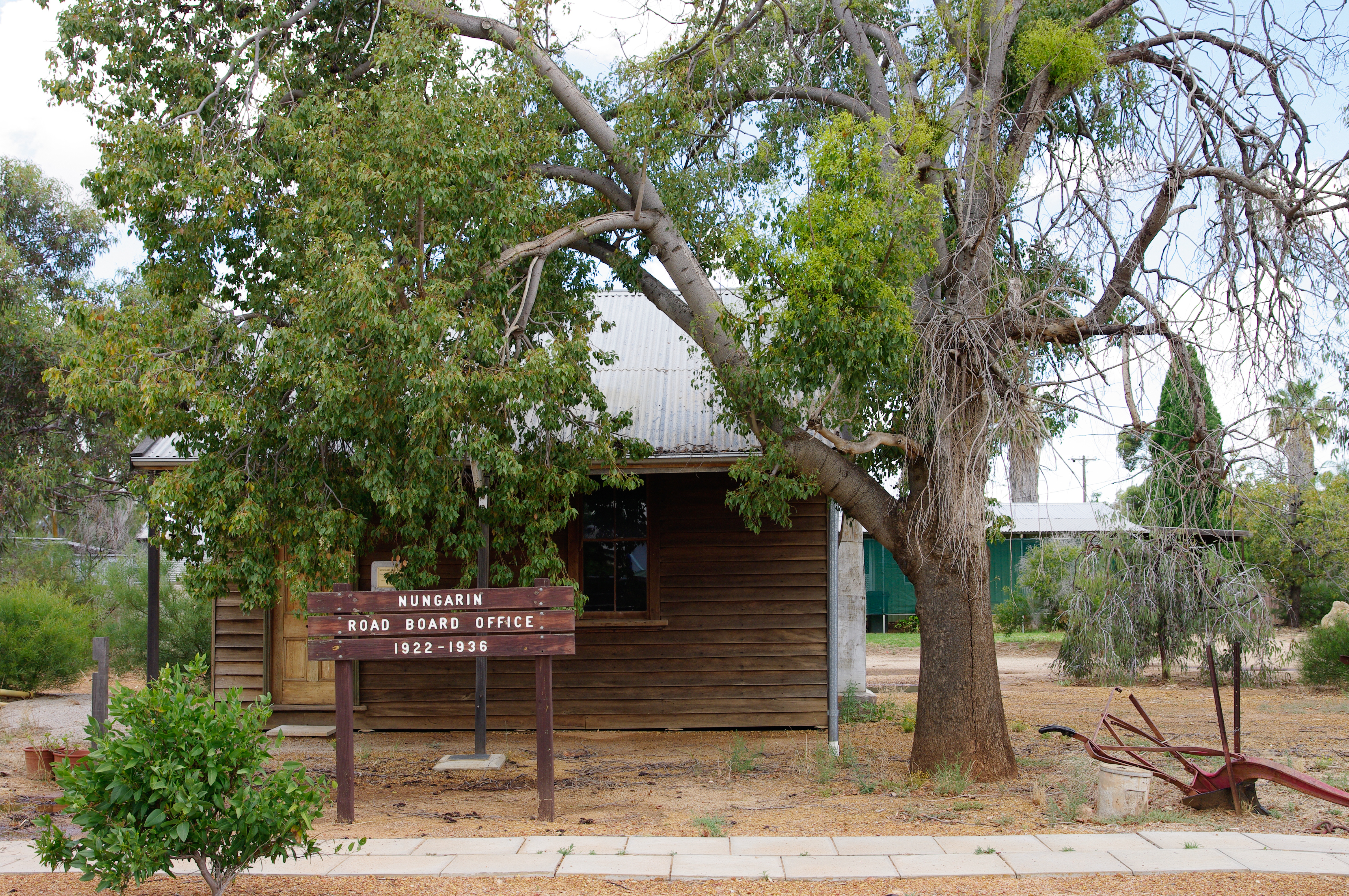 Nungarin, Western Australia. Roadboard offices 1922-1936